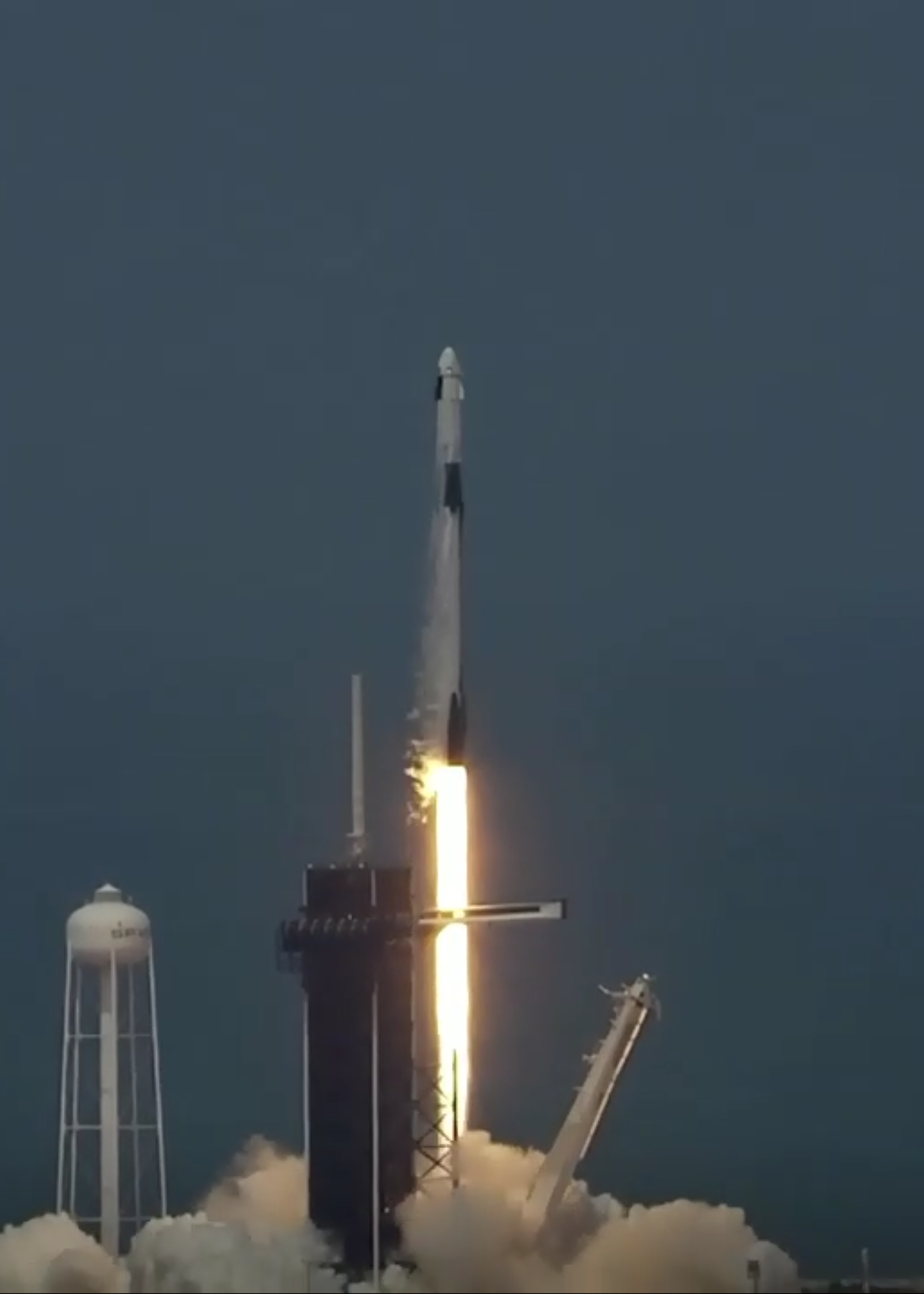 Launch of Crew Dragon Demo-2 (screenshot)